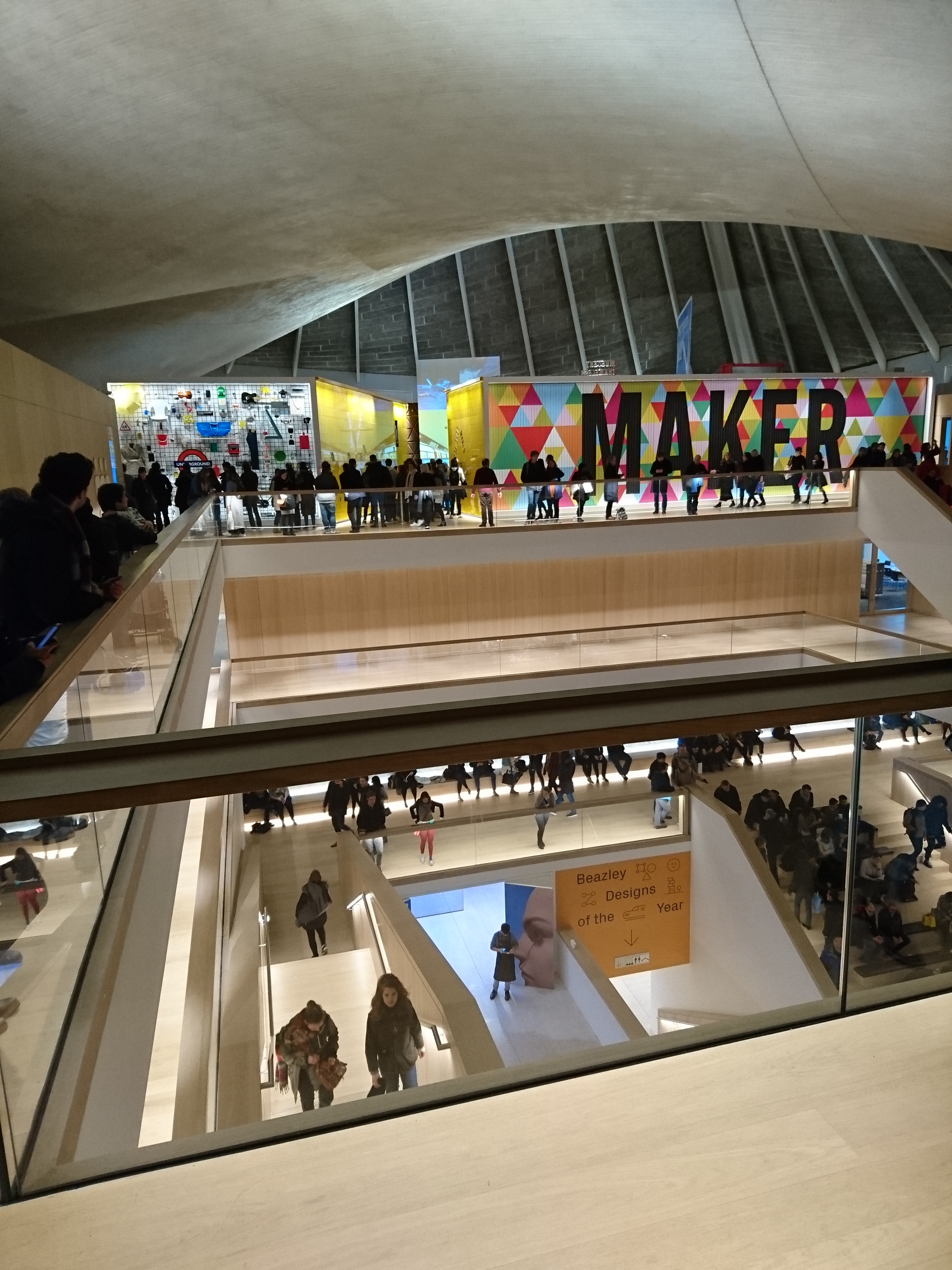 View inside the Design Museum in Kensington London. On the top floor